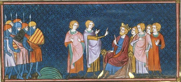 Henry I of England receiving French envoys near Gisors